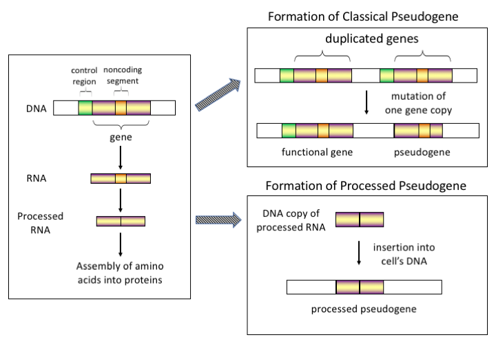 Schematic diagram of pseudo gene formation based on Edward E. Max (1986). "Plagiarized Errors and Molecular Genetics". Creation Evolution Journal 6 (3): 34-46.